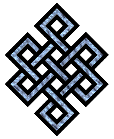 Tibetan endless knot